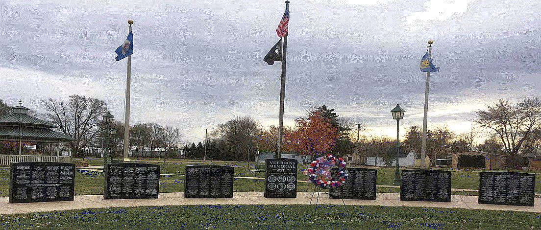 Veteran Memorial in city park of Lester Prairie, MN. Photo taken on Veterans' Day weekend